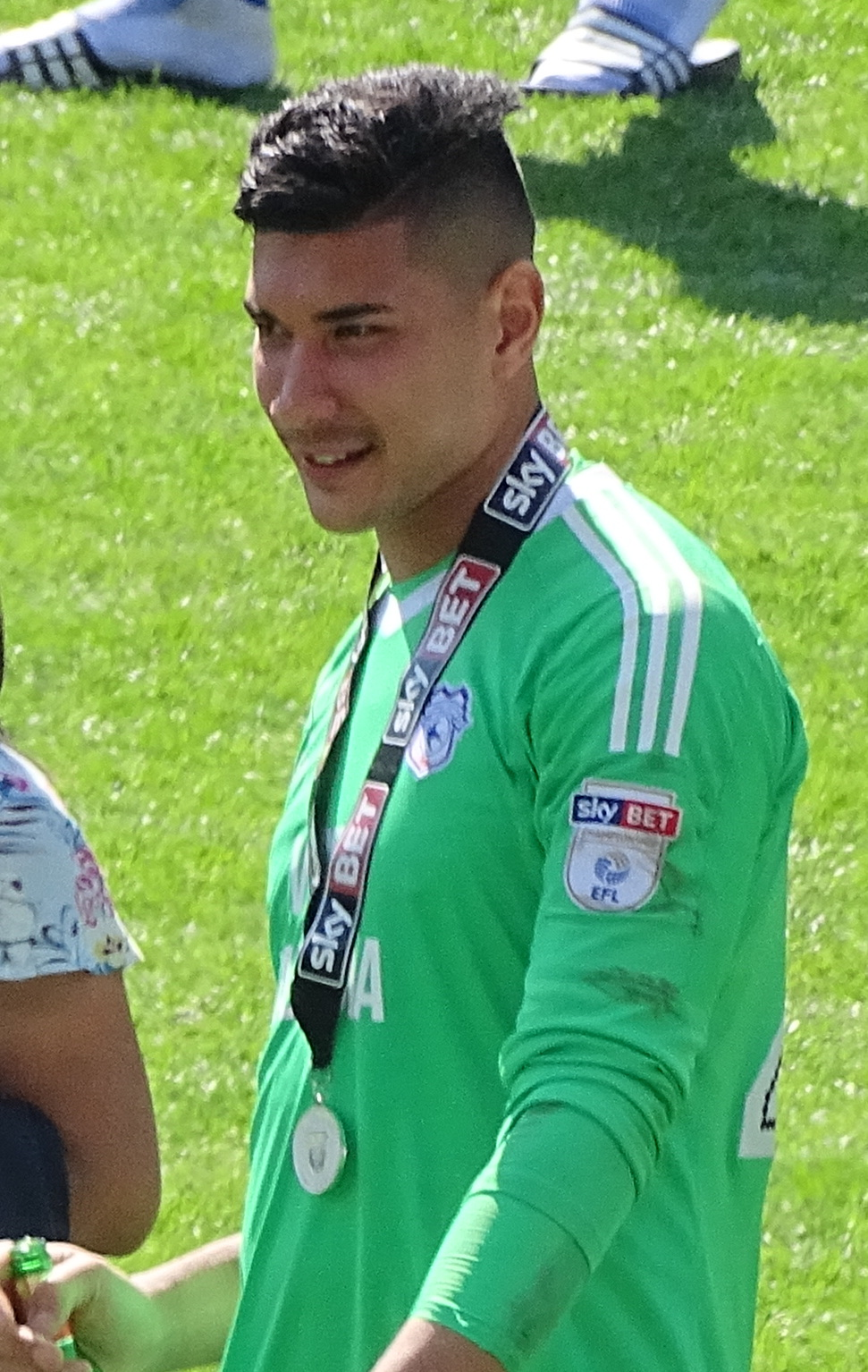 Neil Etheridge after Cardiff City v Reading